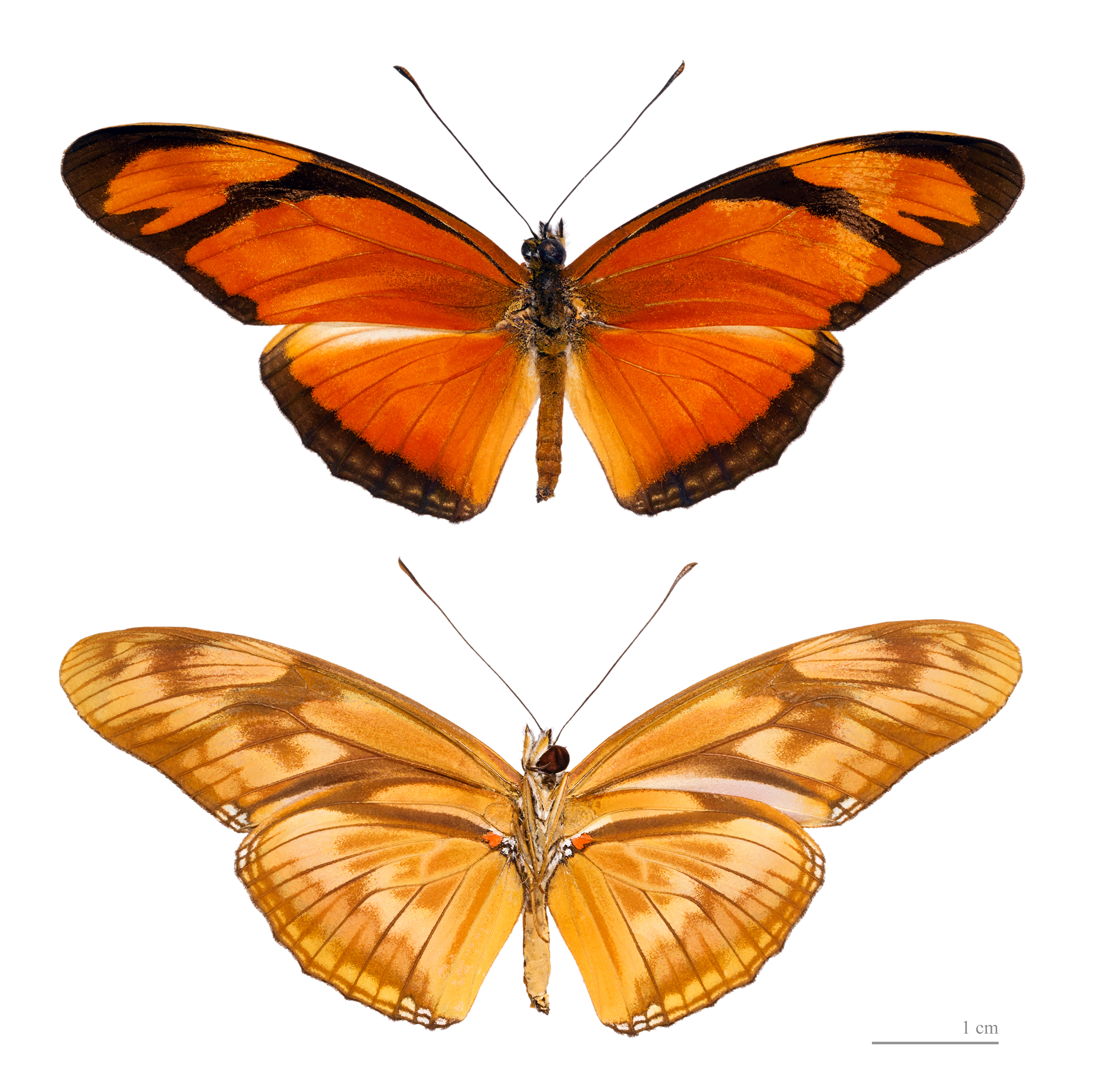 2 views of the same specimen.